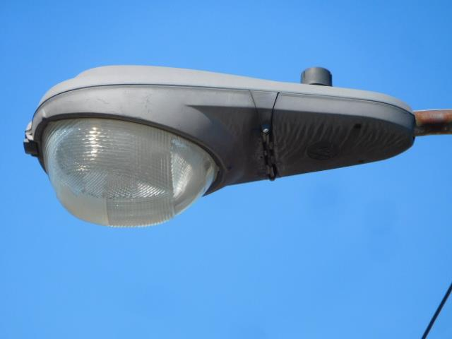 History of street lighting